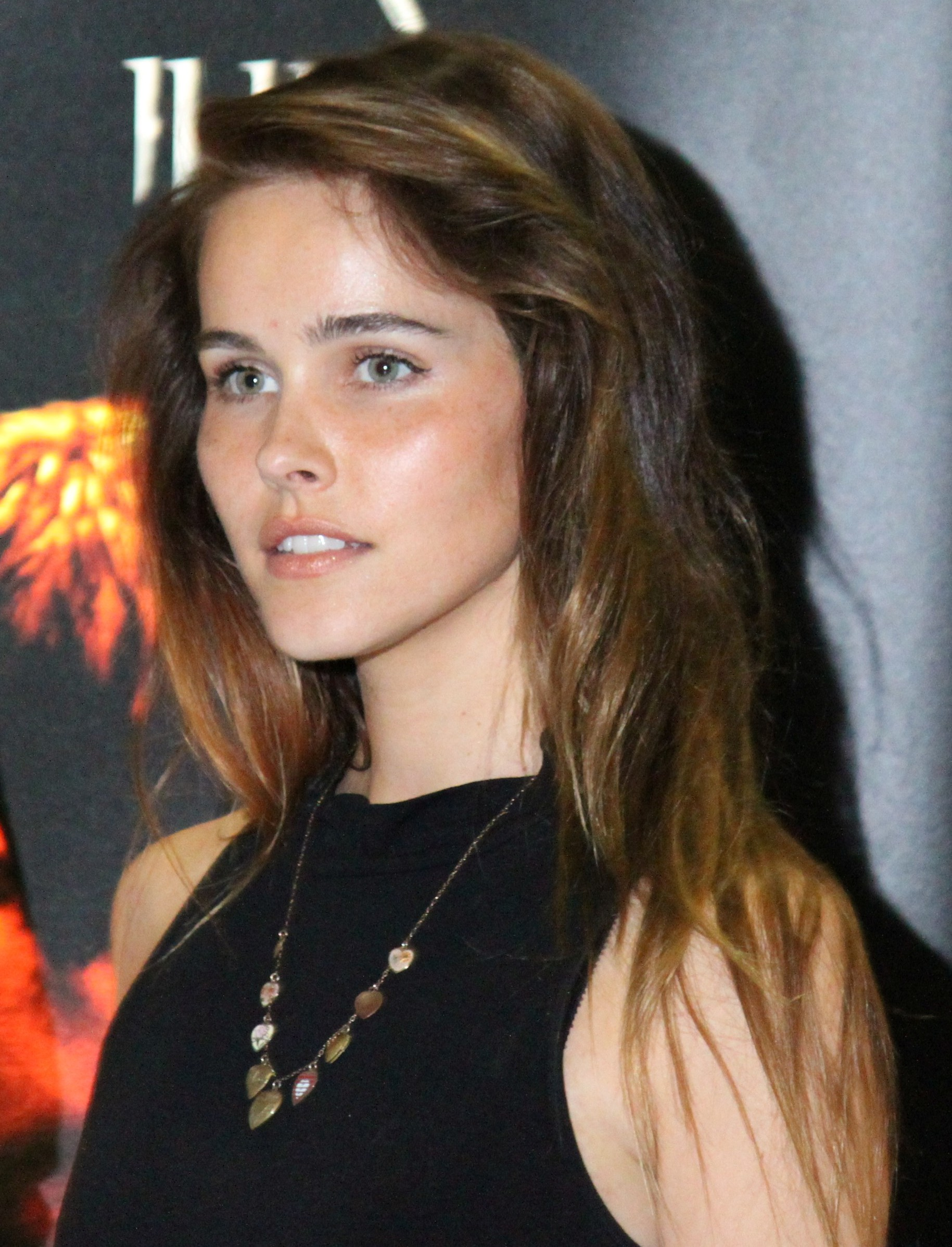 Actress Isabel Lucas at the 2011 WonderCon